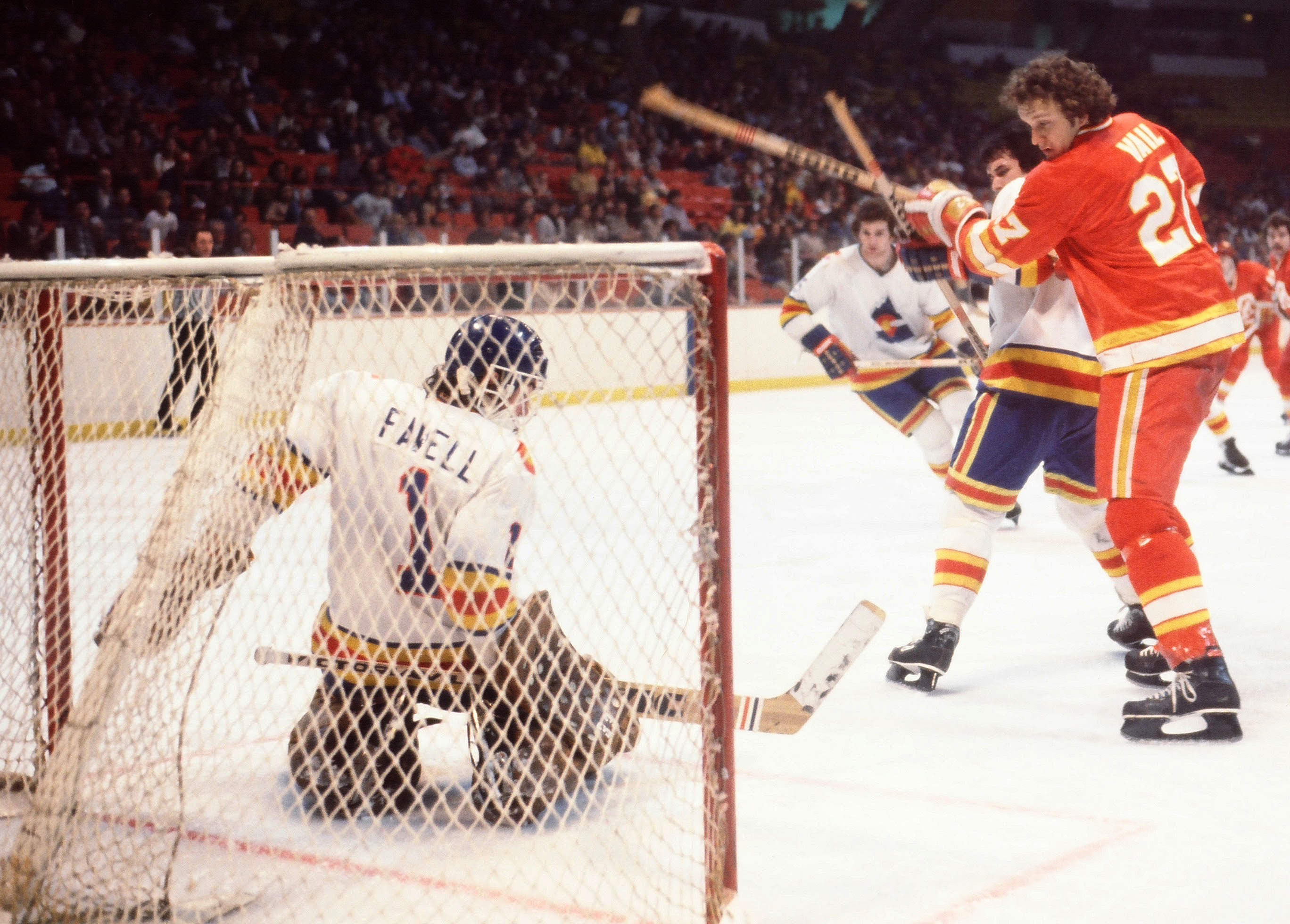 Doug Favell playing for the Colorado Rockies against the Calgary Flames in Denver in 1978